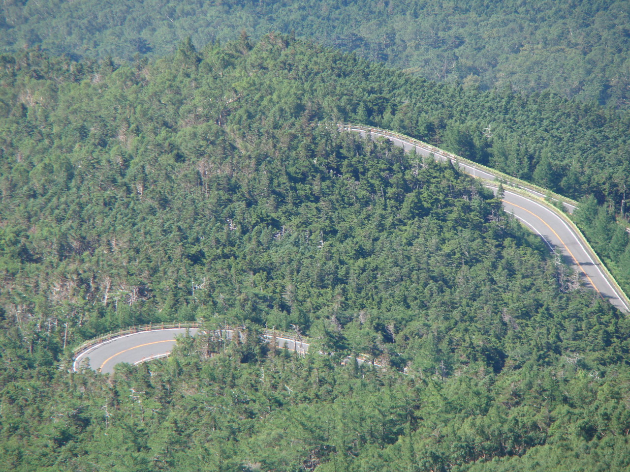 Fujisan skyline Shizuoka Japan